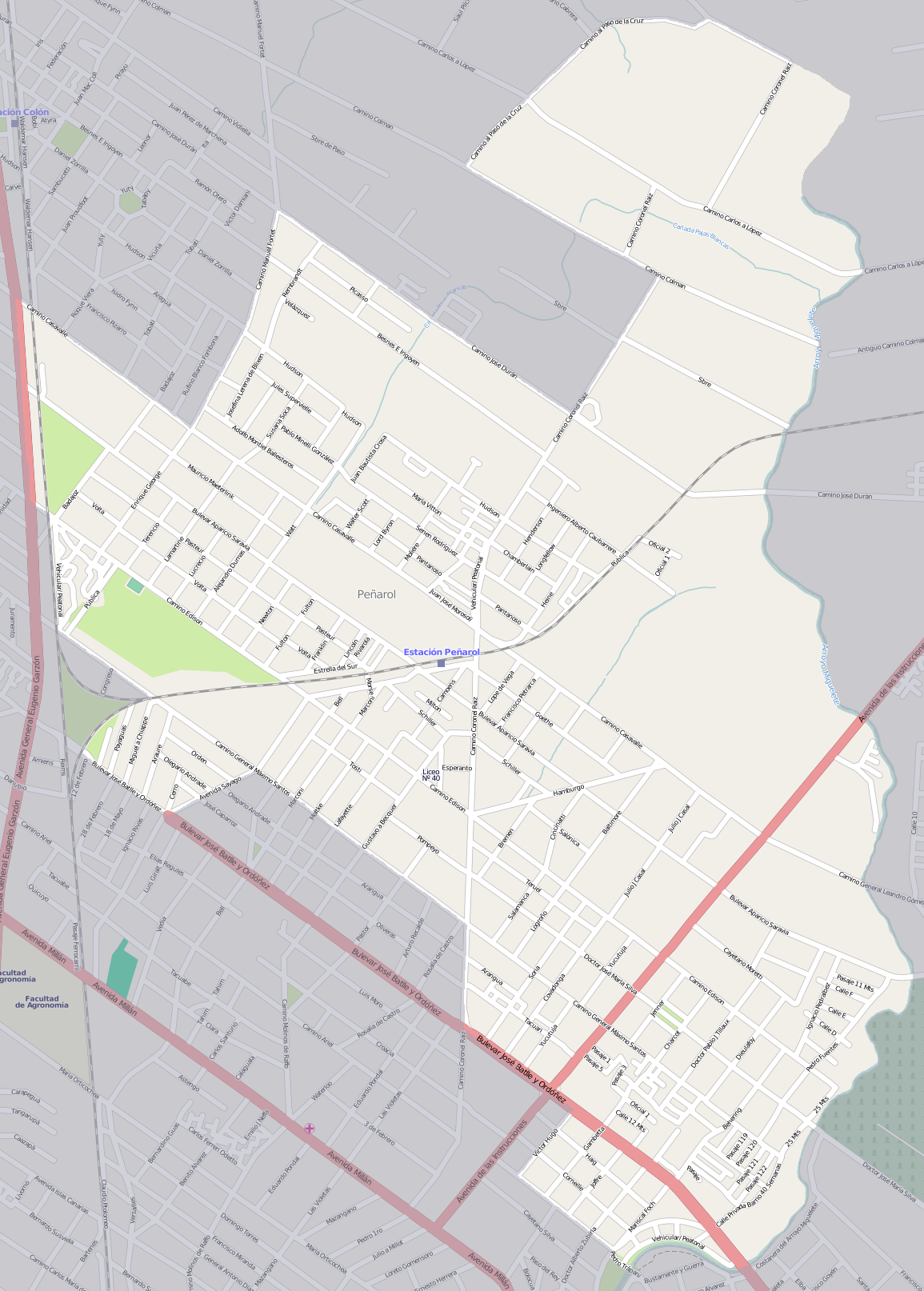 Street map of Peñarol - Lavalleja, Montevideo, exported from OpenStreetMap. I added shading to delimit the barrio. This map may be incomplete, and may contain errors. Don't rely solely on it for navigation.